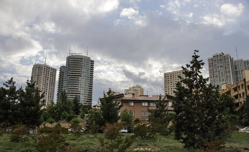 Shahrak-e Gharb